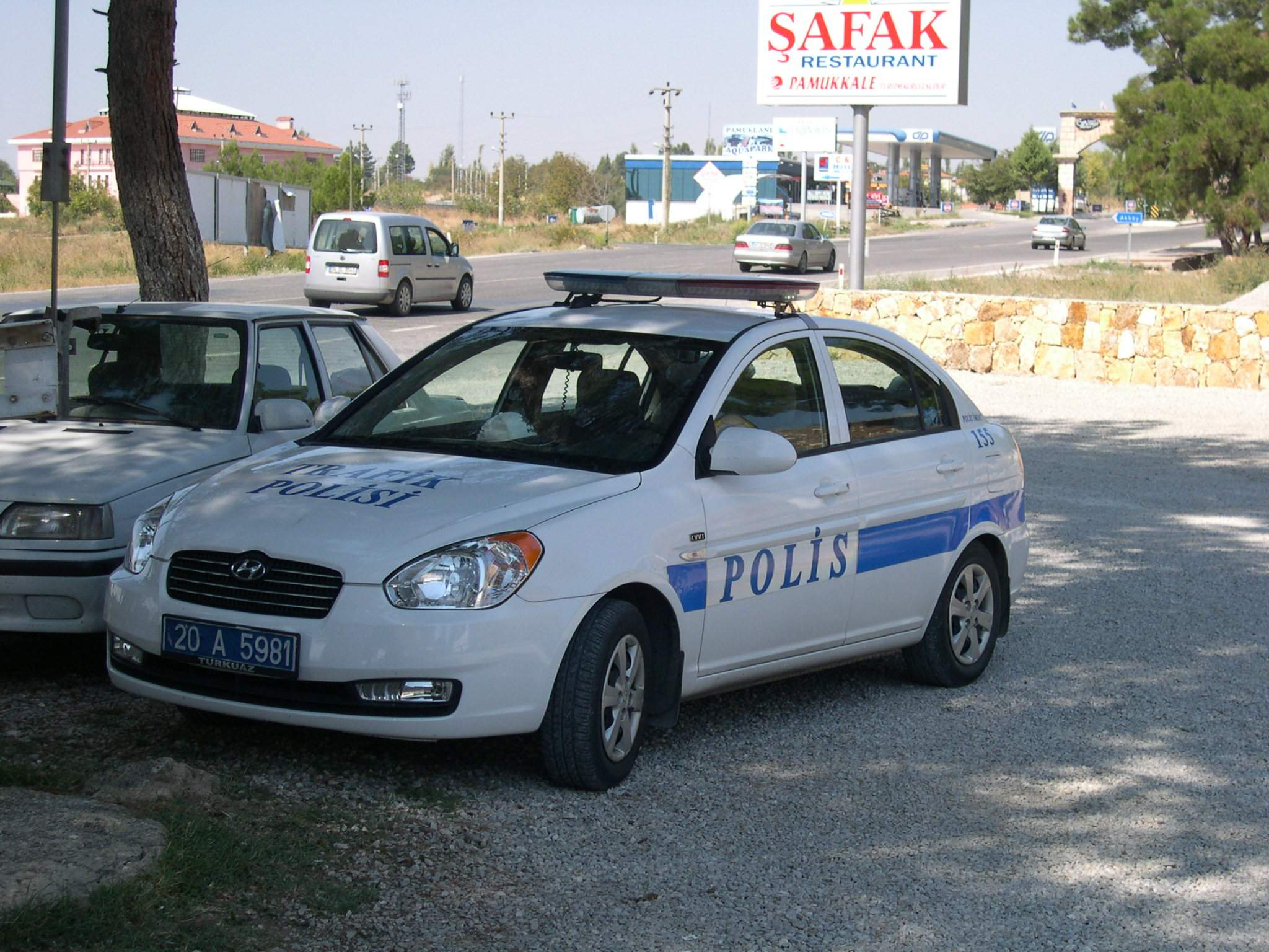 Photo kindly taken by my brother-in-law while holidaying in Turkey last week